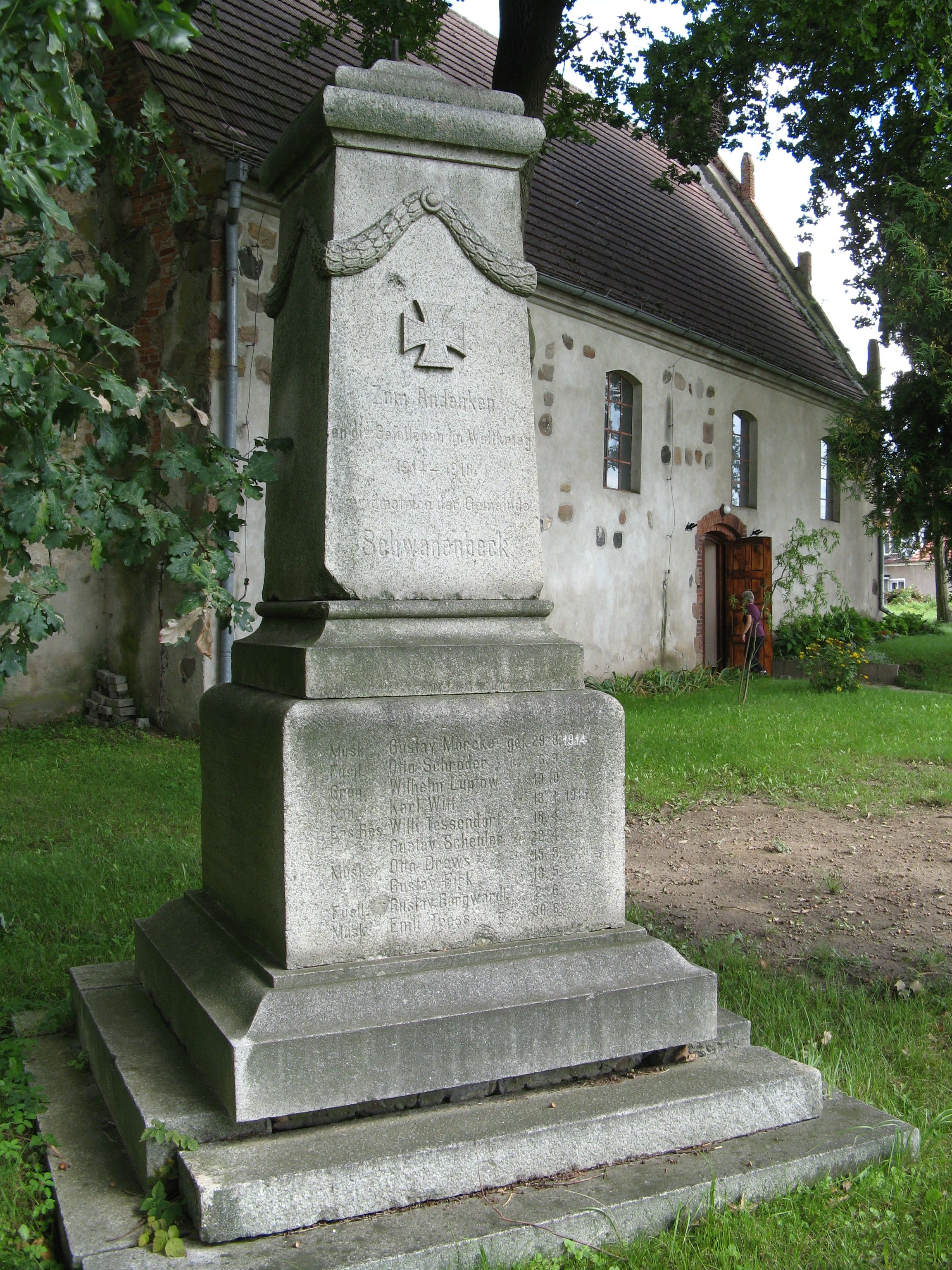 Memorial of the soldiers of the First World War near to the church in Suchanówko (before 1945 german Schwanenbeck)